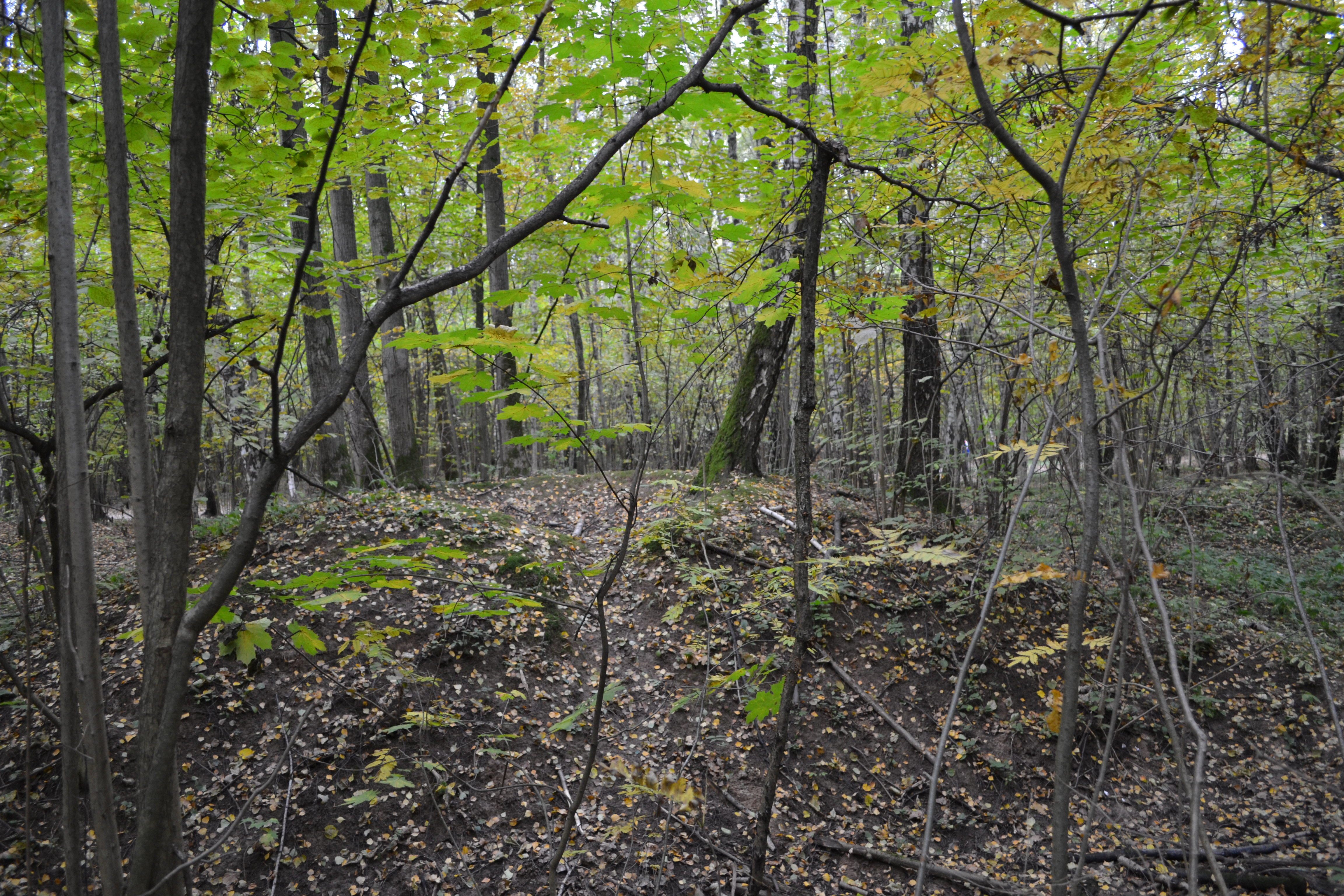 1st Konkovsky burial mound: Landscape Reserve Teply Stan, Southwest District, Moscow